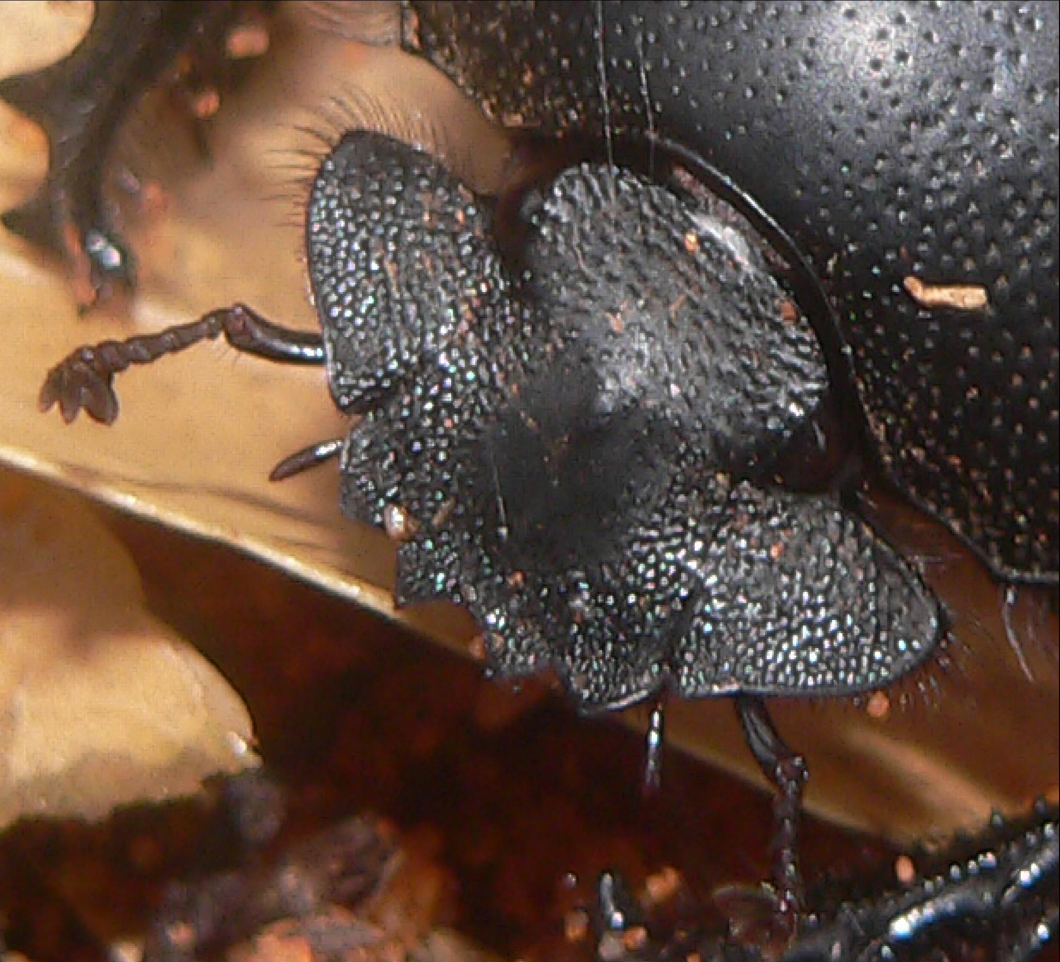 Close up of head of a Scarabaeus viettei (syn. Madateuchus viettei, Scarabaeidae); picture taken in dry spiny forest close to Mangily, western Madagascar